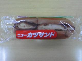 New Katsu Sand in a plastic wrapper. It manufactured by Kudopan Co., Ltd. in Aomori, Japan